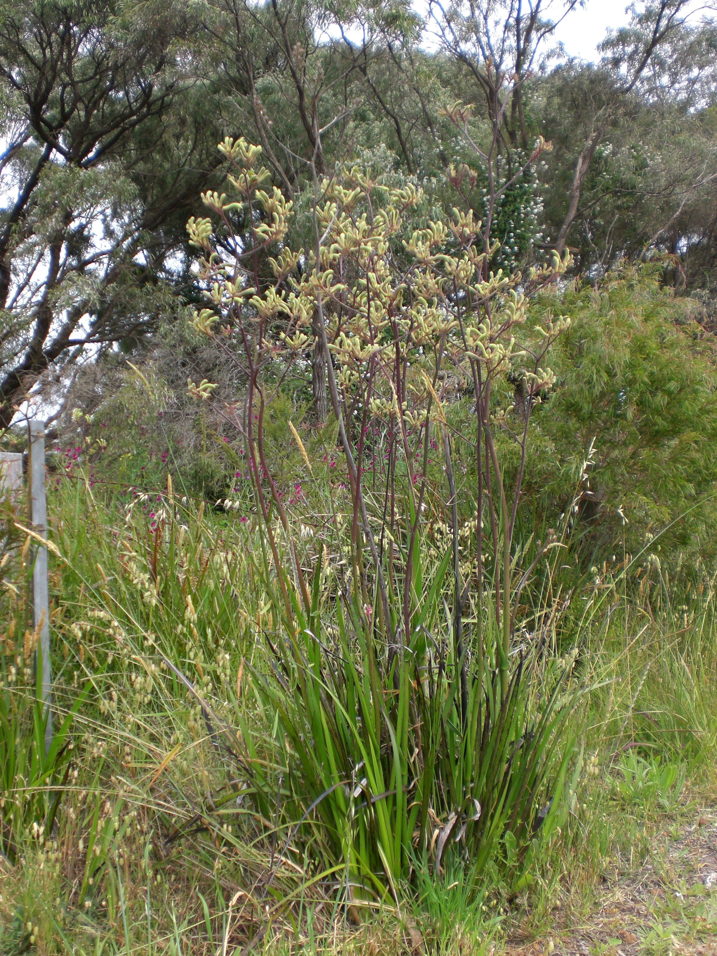 Plant species Anigozanthos flavidus, photographed in Albany, Western Australia. The habitat is a roadside gutter, located at the beginning of Frenchman's Bay Road.